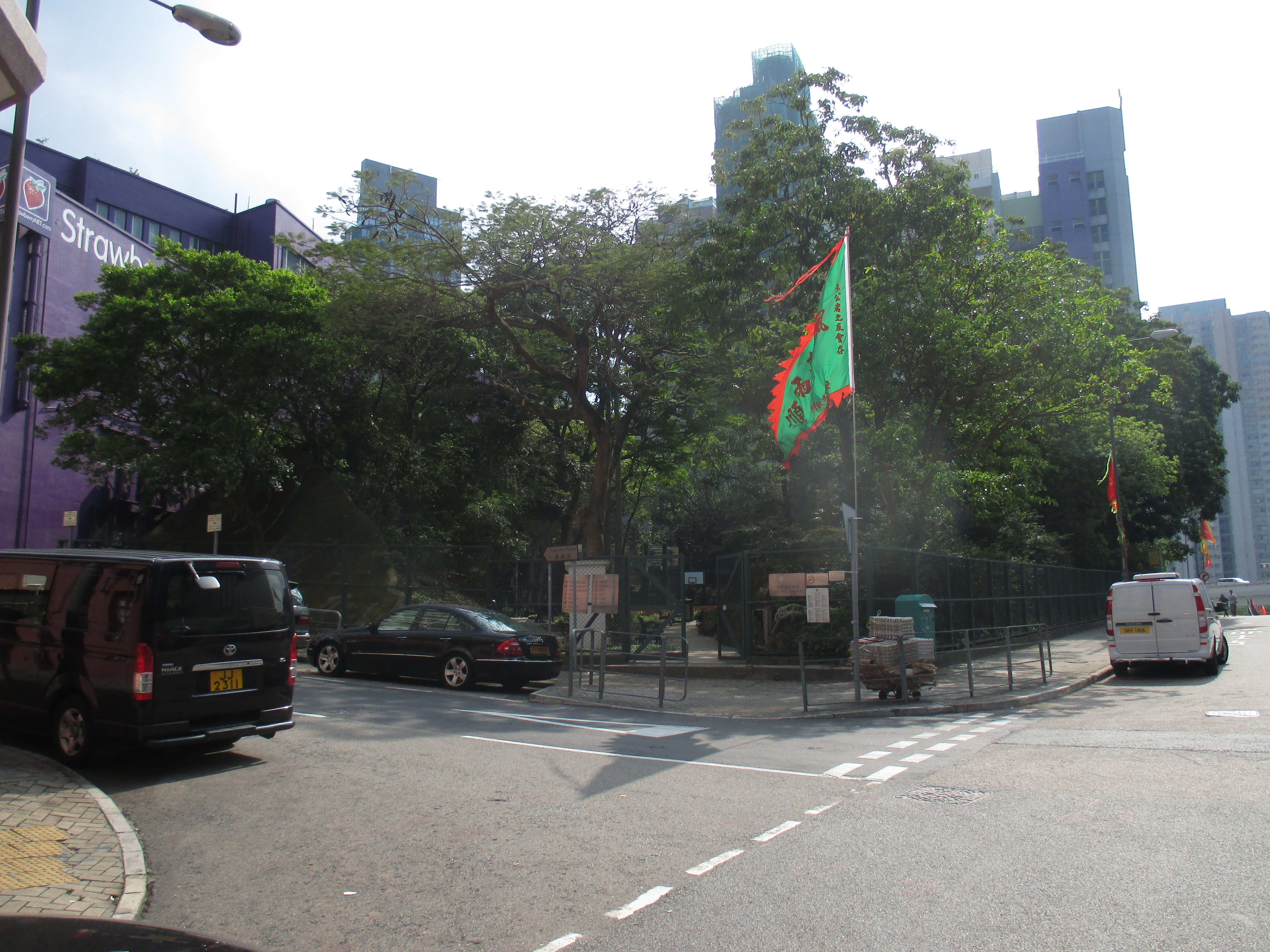 Shau Kei Wan, Eastern District, Hong Kong. Basel Road Playground